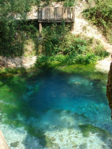 Syri i Kaltër, or the Blue Eye, is a well known natural cold water spring in Sarandë, Albania